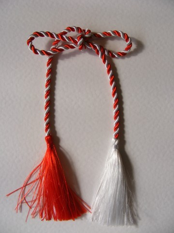 Free Photos – Red and White Rope – Martisor More photos and details about possible copyright or licensing restrictions here: Full Size Up to 3072 x 2304 pixels Information Regarding Copyright